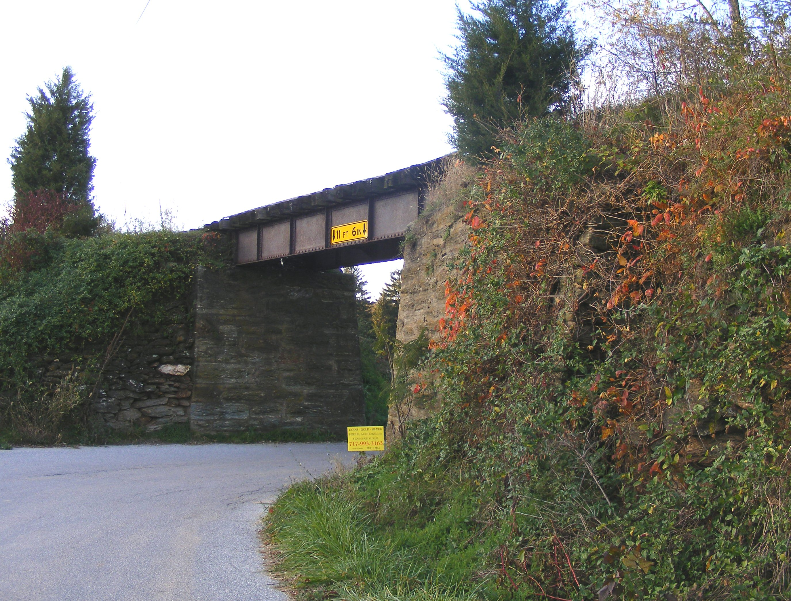 Ridge Road Bridge, Stewartstown Railroad, Hopewell Twp along Rt 851, on National Register of Historic Places in York County, PA